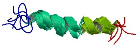 GCG protein 3D structure (PDB 1d0r)